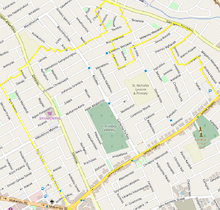 Map of Agios Nikolaos.